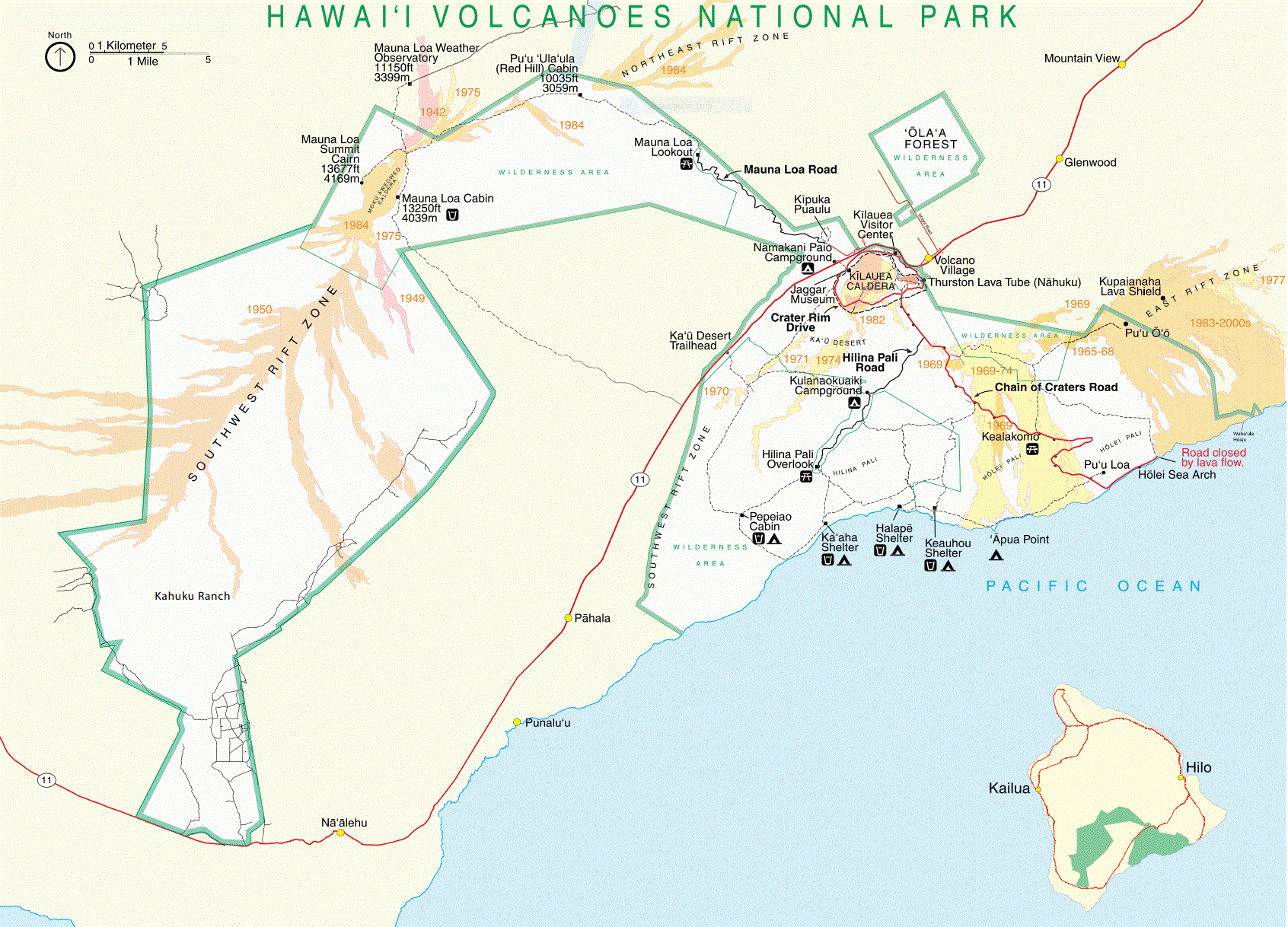 Map of Hawai'i Volcanoes National Park, including the Kahuku ranch section added in 2004.